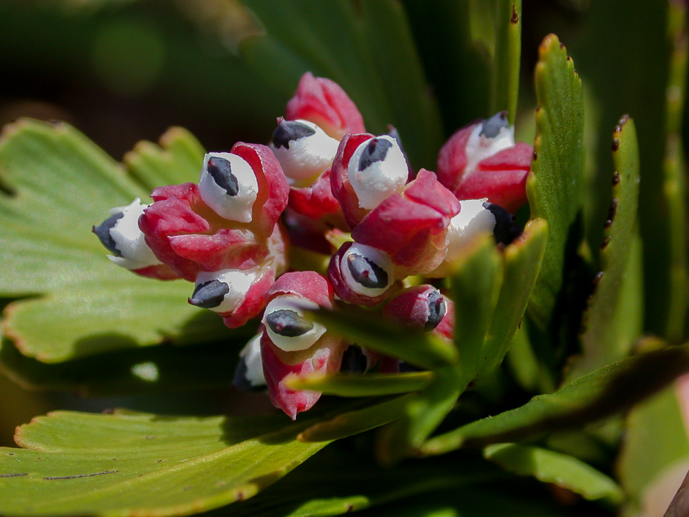 Phyllocladus aspleniifolius buds